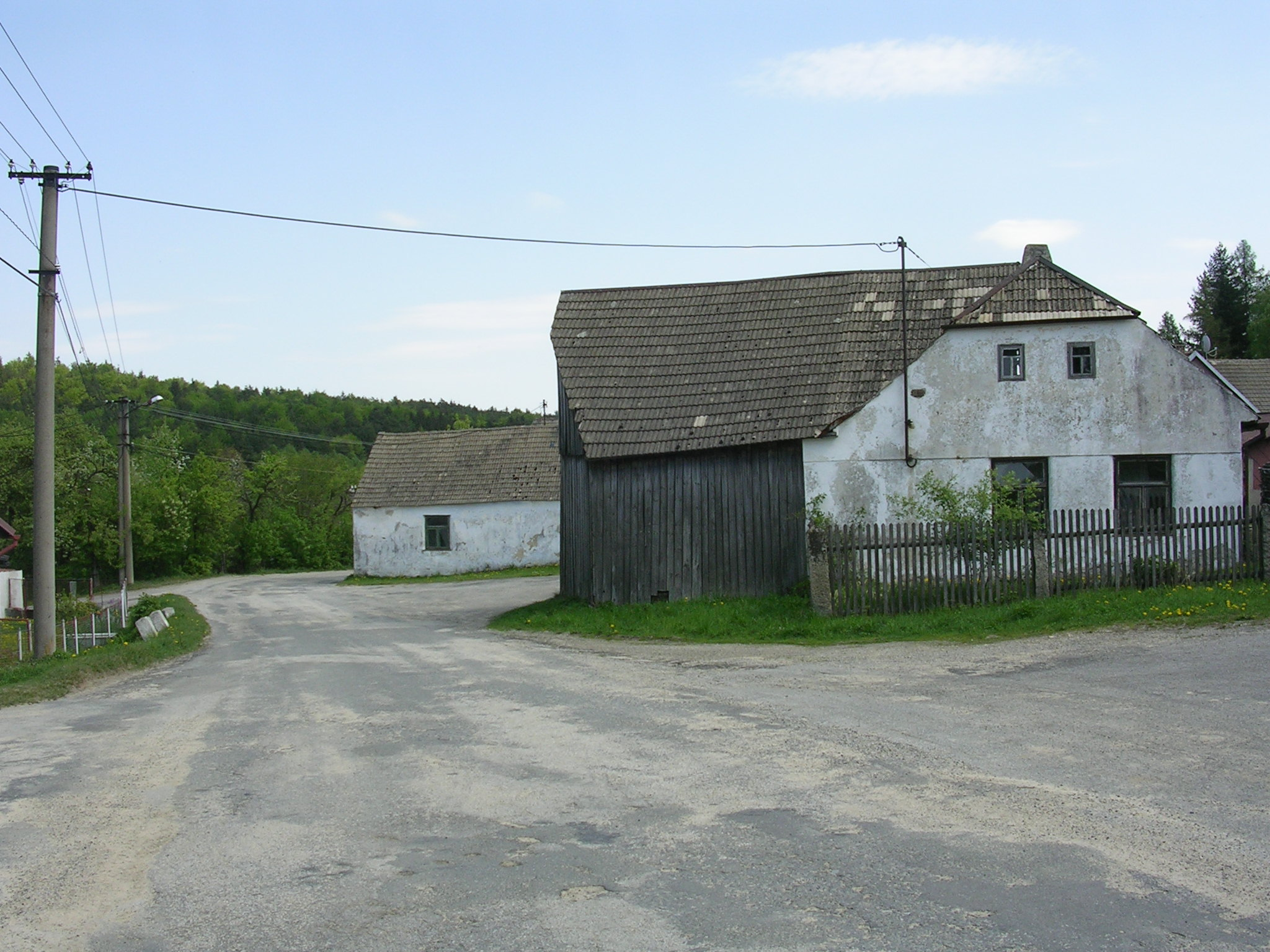 Volfířov-Radlice, South Bohemian Region, the Czech Republic.